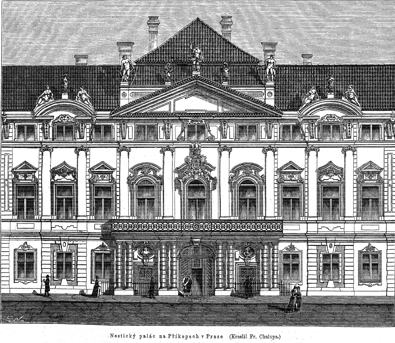 Former Nostic Palace in Na Příkopě street in Prague in 1878. It hosted the collections of National Museum from 1846 till 1890 and was pulled down in 1890s.